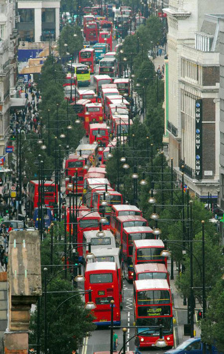 Oxford Street